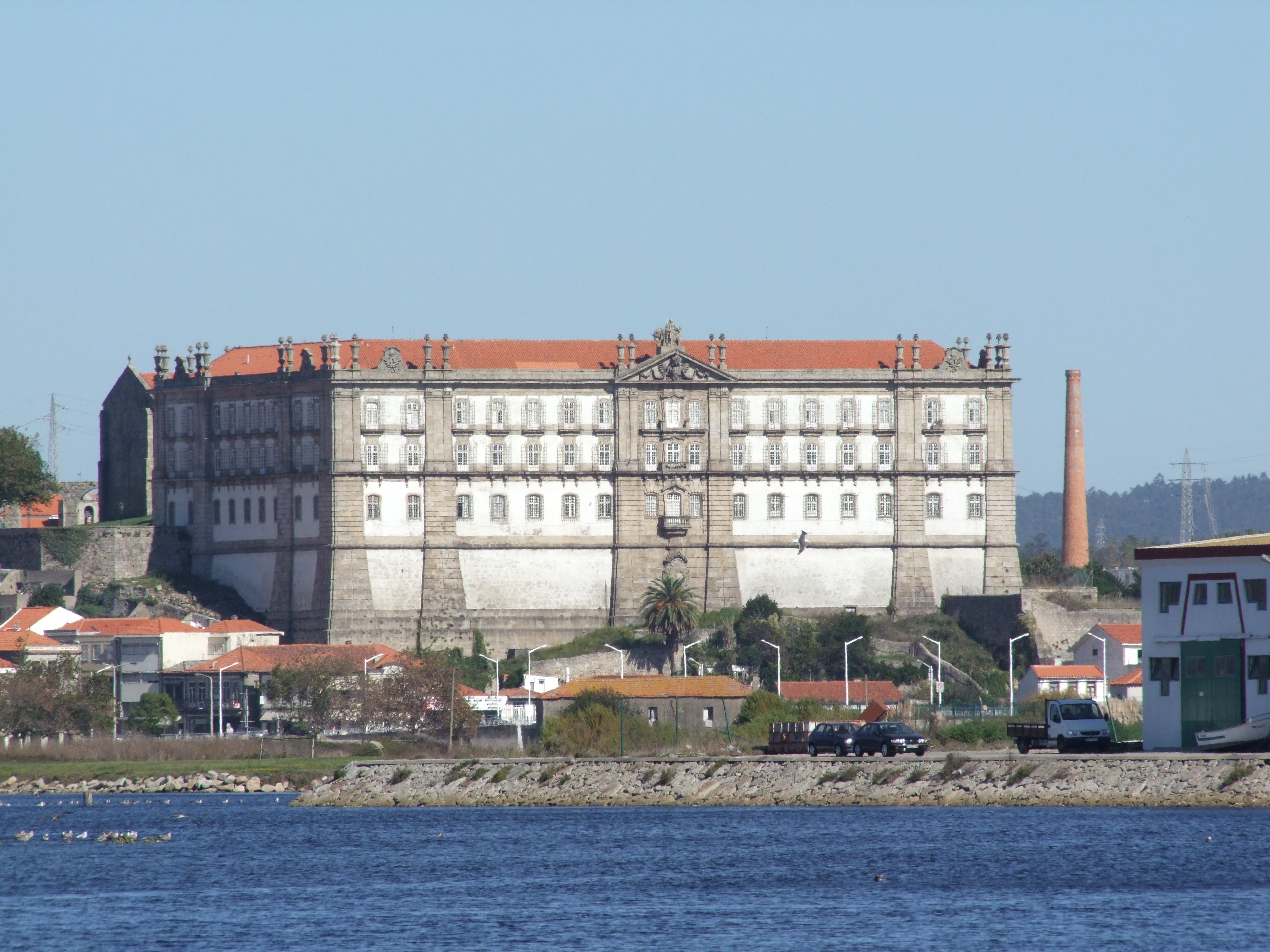 Santa Clara Convent, Vila do Conde, Porto, Portugal